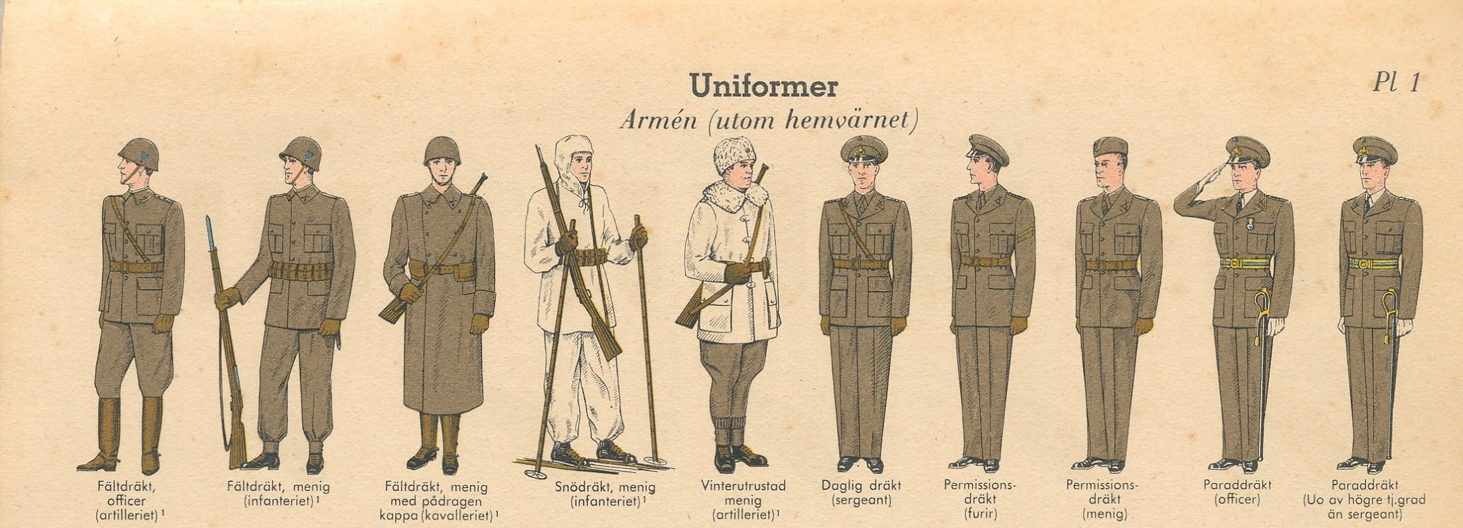 Uniform modell 1939 for the Swedish Army. Different uniform dresses. From left to right: Field dress (officer), Field dress (private), Field dress (private) with greatcoat, Snowdress (private), Winter dress (private), Service dress (officer), Walking-out dress (Lance-sergeant), Parade dress (officer), Parade dress (Warrant officer).